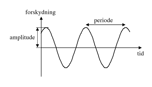 Graf over simpel harmonisk bevægelse. Original version Image:Simple harmonic motion.png Movimiento armónico simple Image:Simple harmonic motion.png